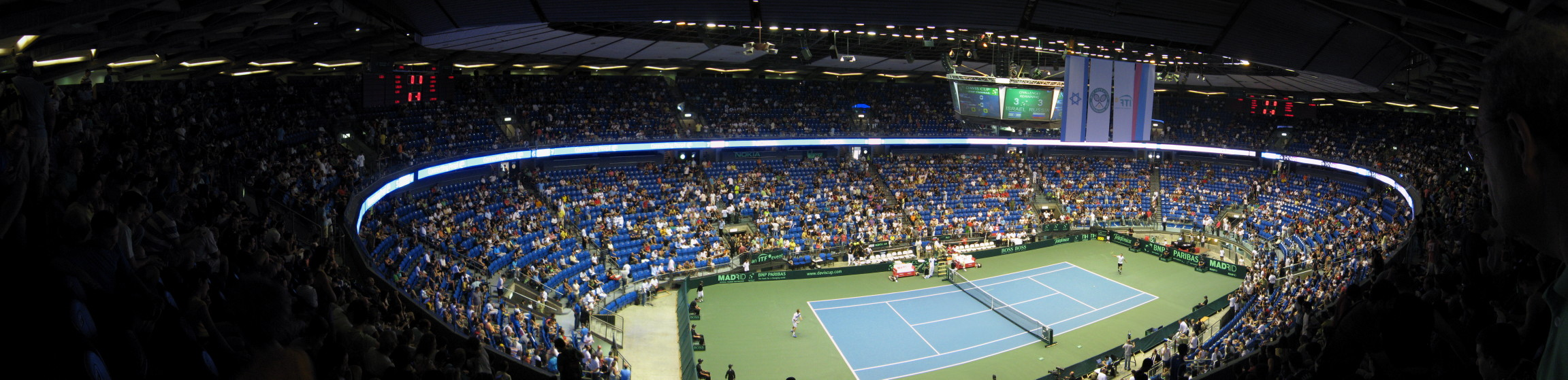 A panoramic view of the Nokia Arena in Tel Aviv, Israel during the Davis Cup quarter final matches between Israel and Russia